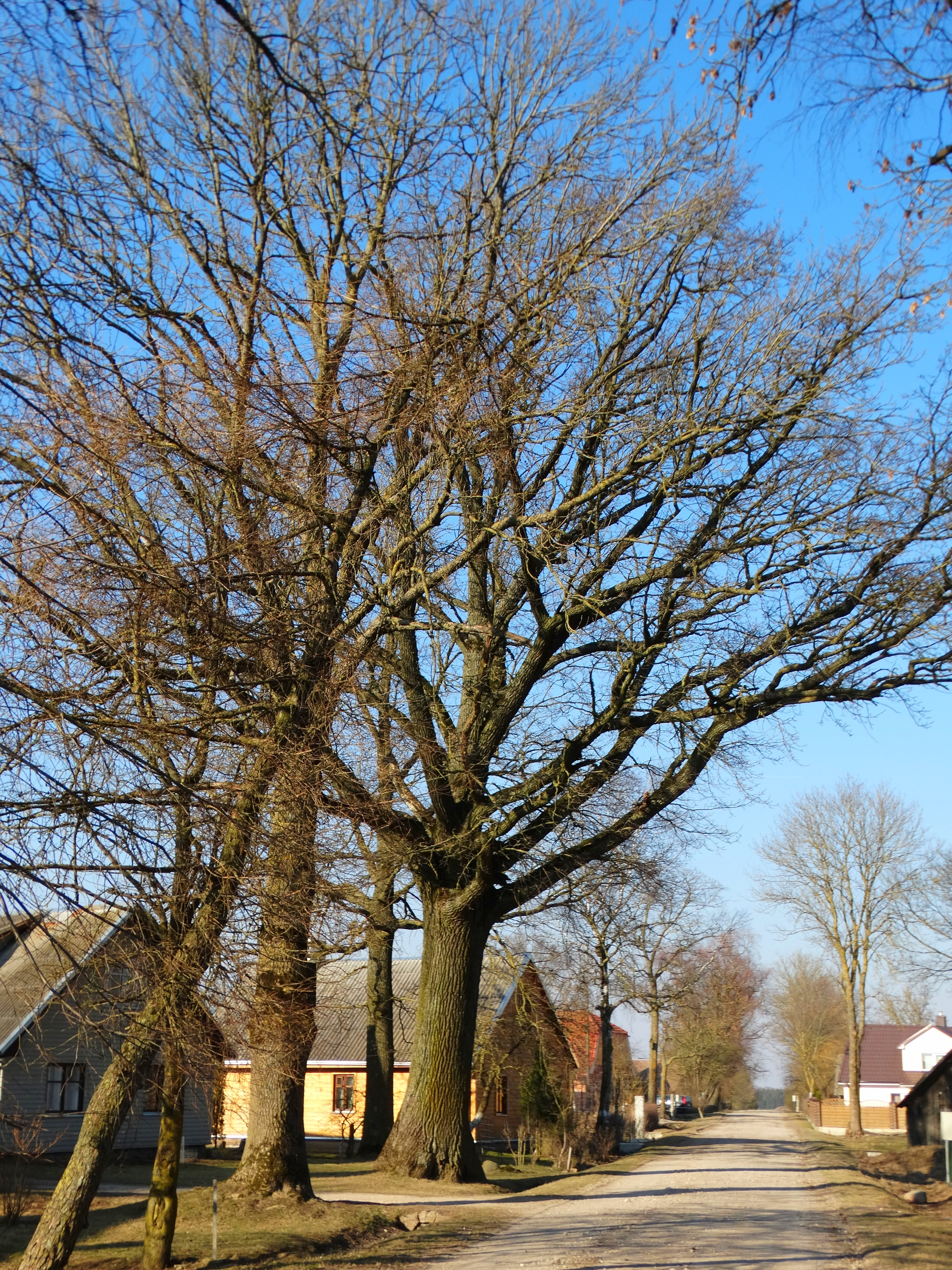 Kulnys Oak, Dargaičiai, Šiauliai district, Lithuania